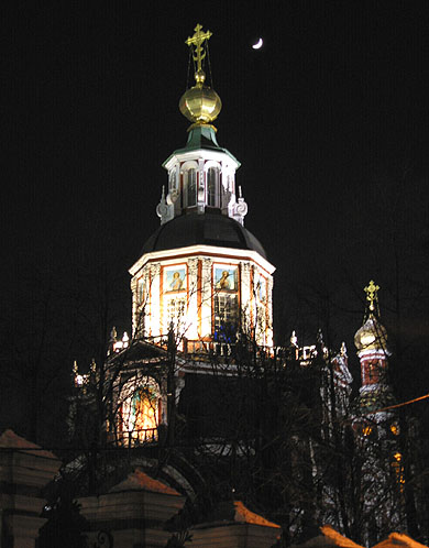 Church of St. John the Warrior, Moscow (1709-17).